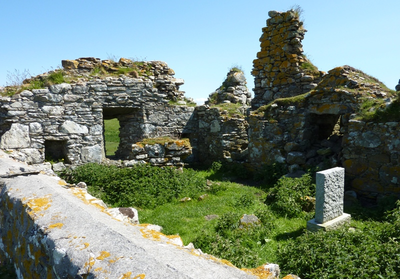 Teampull na Trionaid, North Uist, Outer Hebrides, Scotland - the eastern interior of the northern building